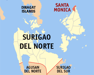 Map of the Surigao del Norte showing the location of Santa Monica